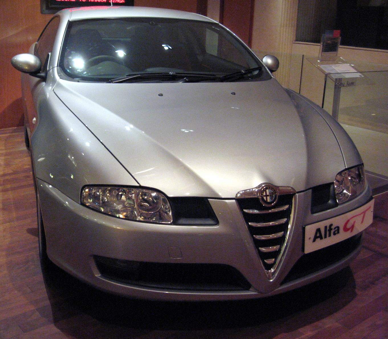 Alfa Romeo GT.